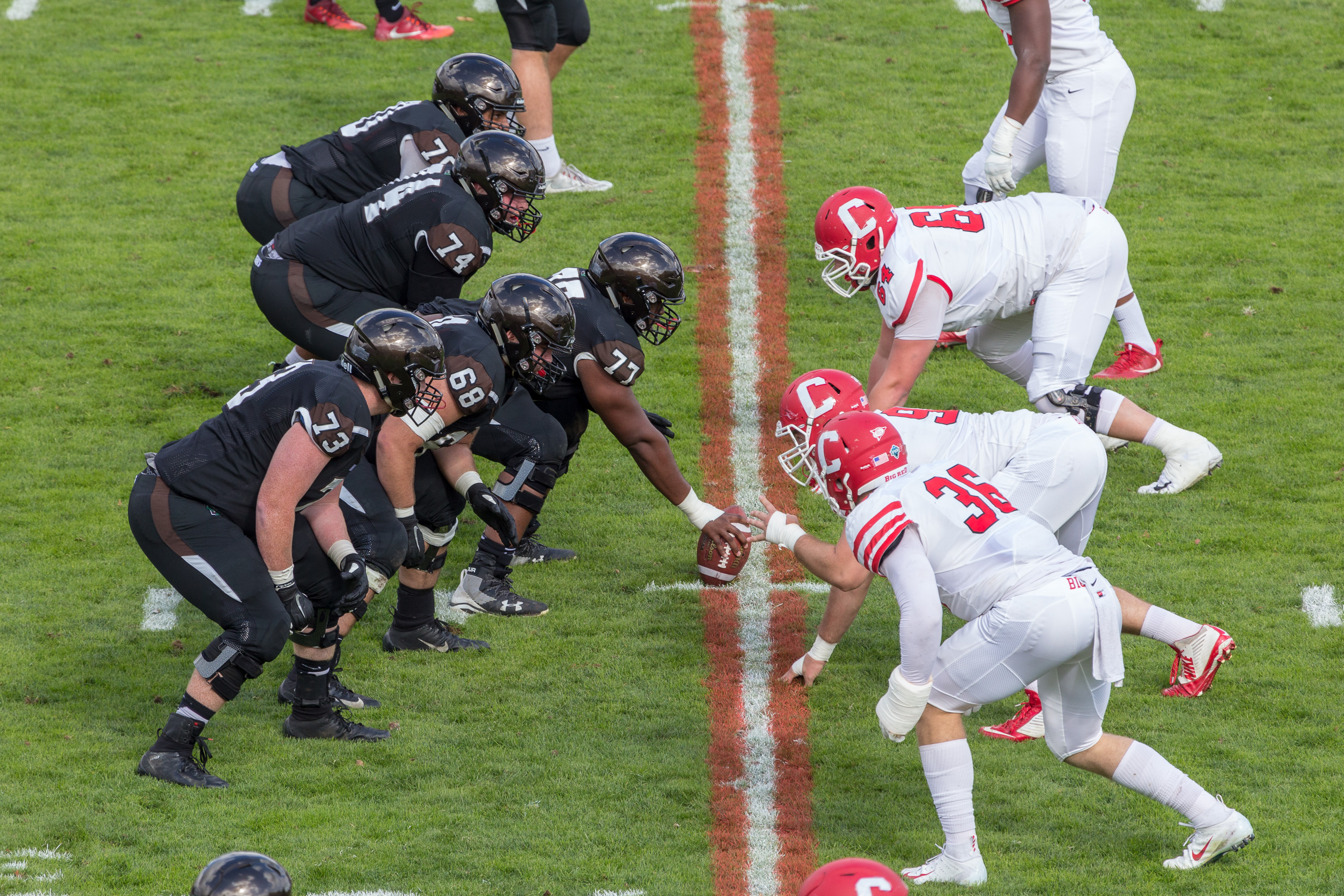 Brown Bears vs Cornell Big Red, Oct 20 2018 at Brown Stadium. Brown starting center #77 Toby Okwara.